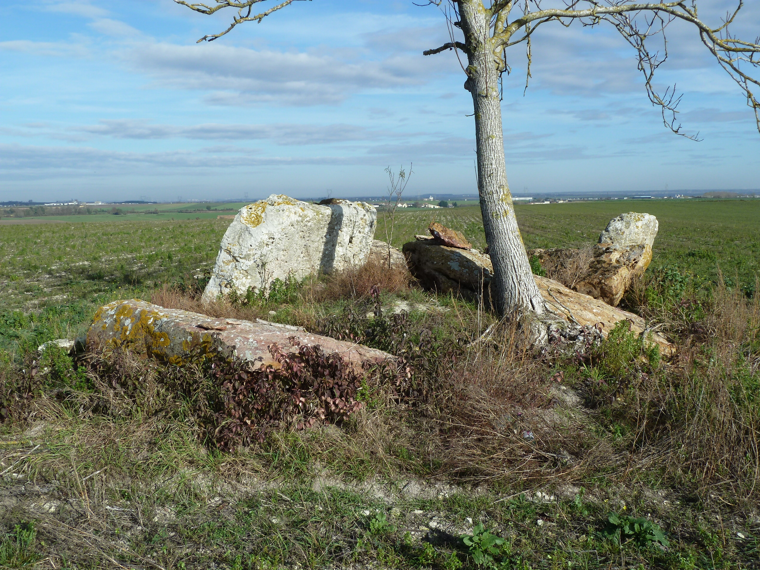 Dolmen du Griffier, Antoigné, Maine-et-Loire, Pays de la Loire, France.